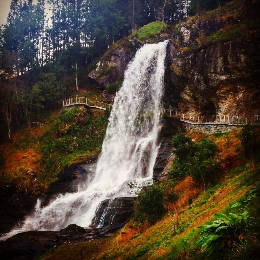 Steinsdalsfossen Autumn 2015